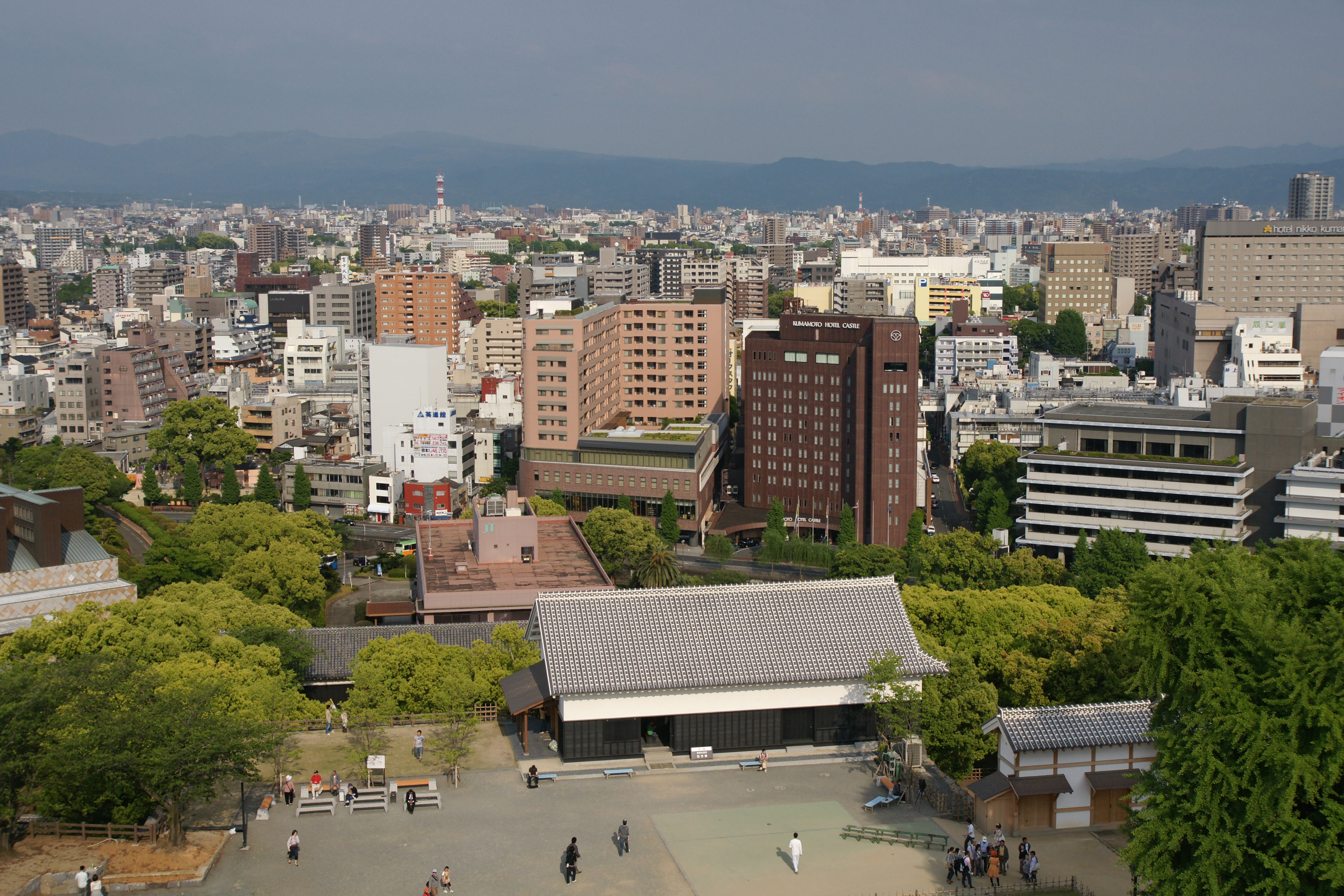 Kumamoto Castle, Kumamoto, Kumamoto prefecture, Japan